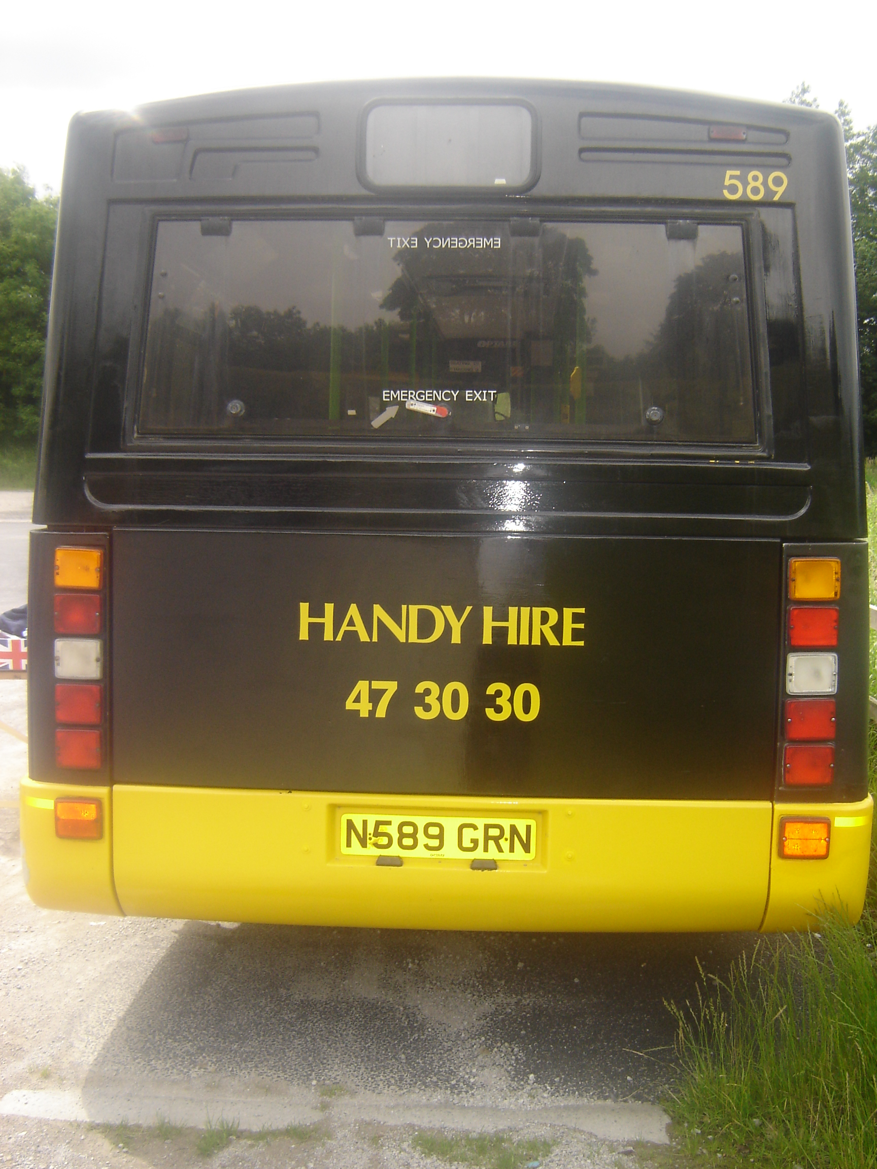 Owned by Alan Hayward. Beautiful example of mid - late 90s minibuses. From Blackpool Transport who branded their minibuses as 'Handy Bus'.